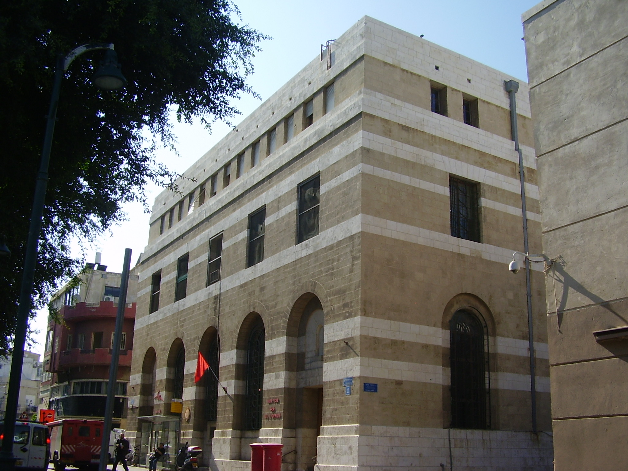 central post office in yaffo (jaffa)